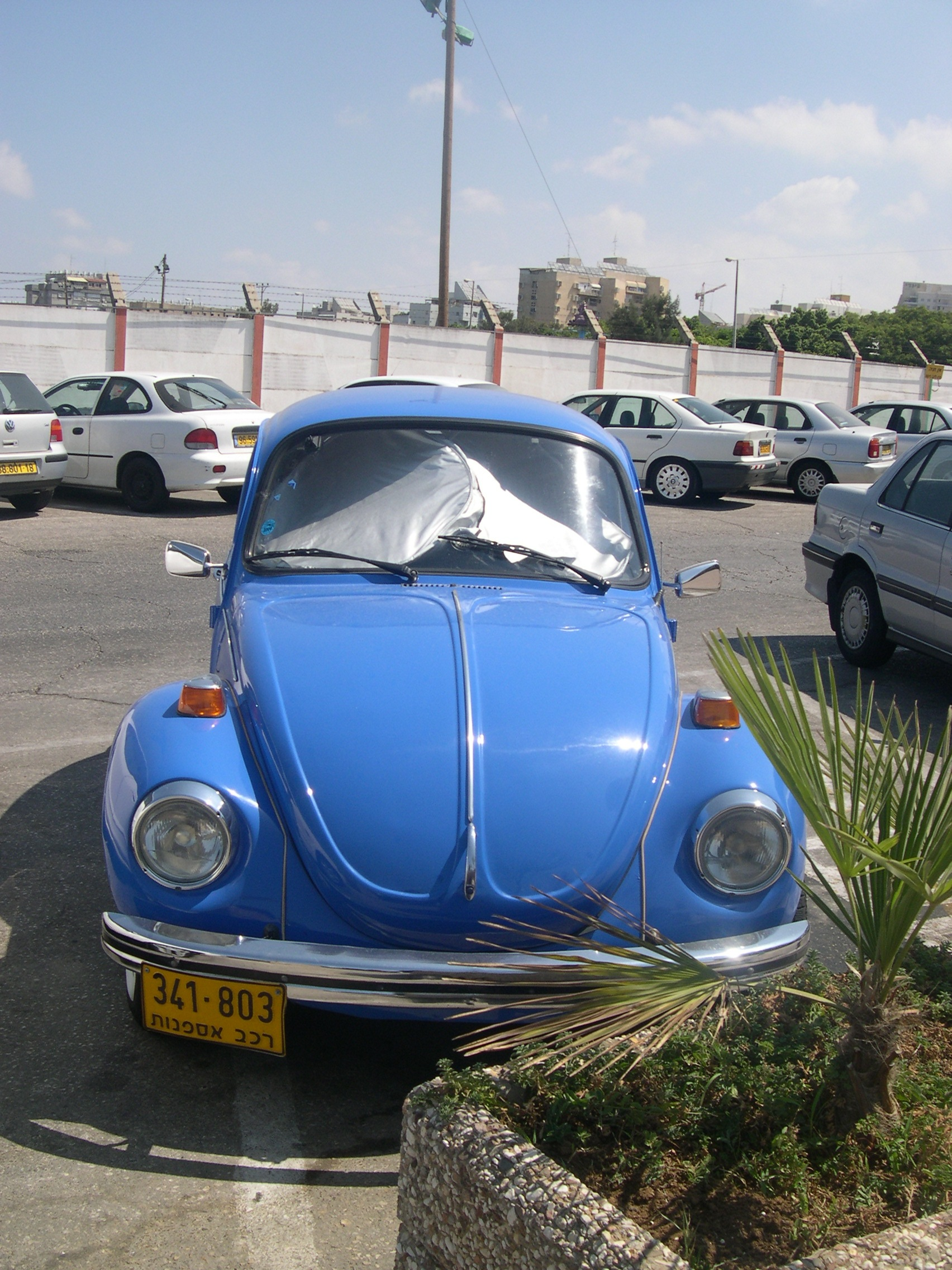 Volkswagen beetle visiting Egged Bus Museum. Holon, Israel 2009.